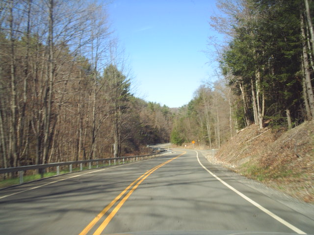 New York State Route 223 heading eastward through Swartwood Hill.